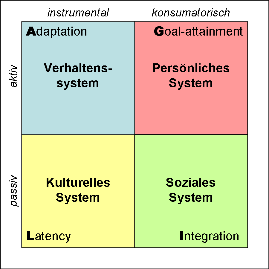 Basic AGIL scheme (German version). Own work.